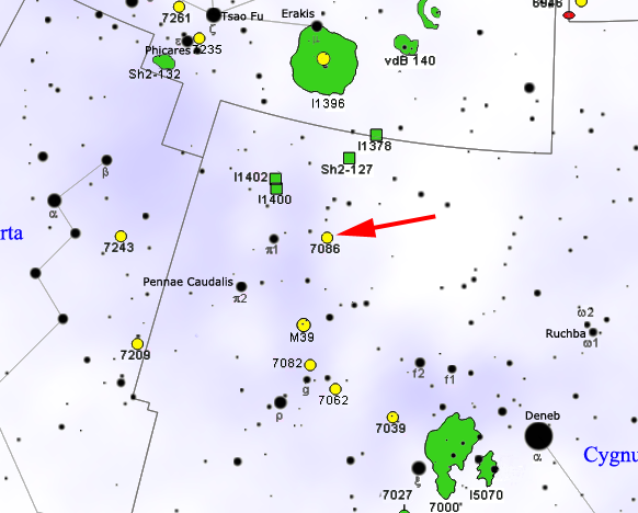 Map of NGC 7086